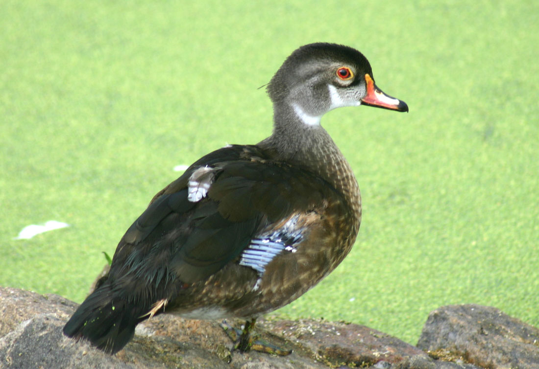 This is a male Wood Duck in eclipse plumage. I took this picture myself on July 15, 2006 in Audubon Park, New Orleans, Louisiana. There is a substantial population of Wood Ducks there, and they are accustomed to constant human presence, so they are not shy. Aix sponsa, Male, eclipse plumage